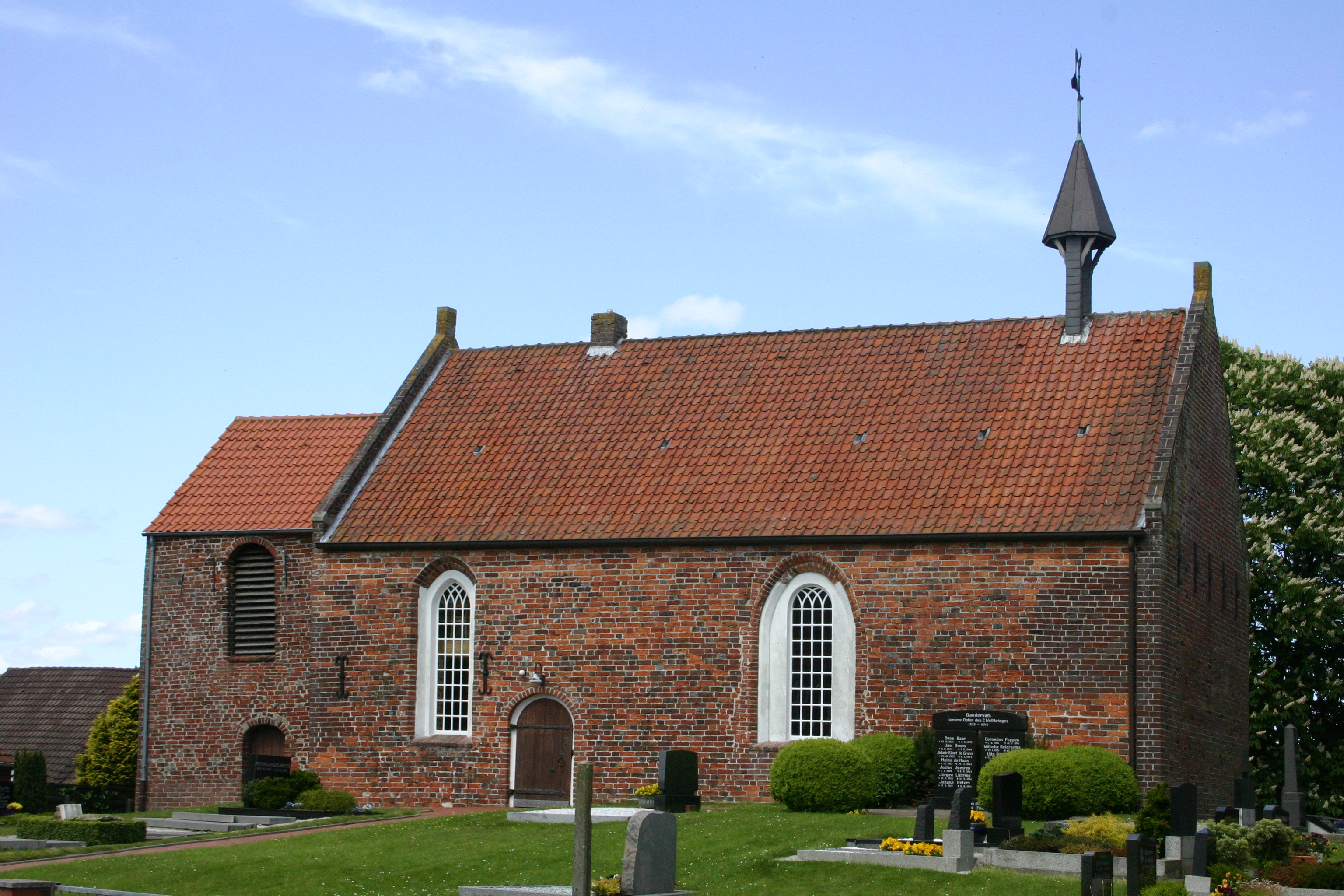 Historic church in Gandersum, district of Leer, East Frisia, Germany